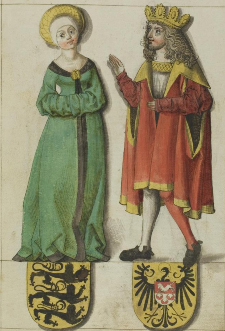 Liudolf of Swabia and his wife Ida